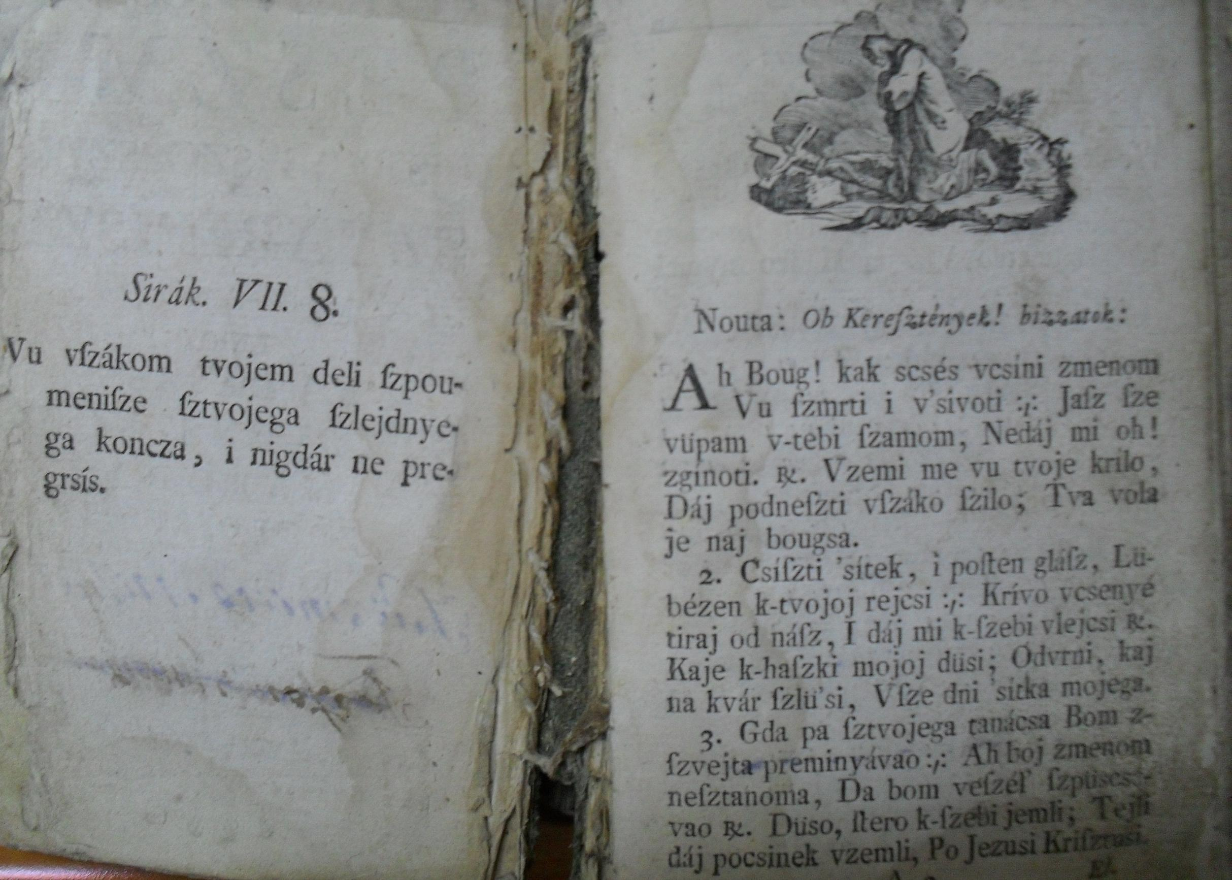 The first page of the Mrtvecsne peszmi (1796) from István Szijjártó. In the left side citation from the Old Testament from the book of Sirach. This issue sometime was the property of Mihály Küzmics.